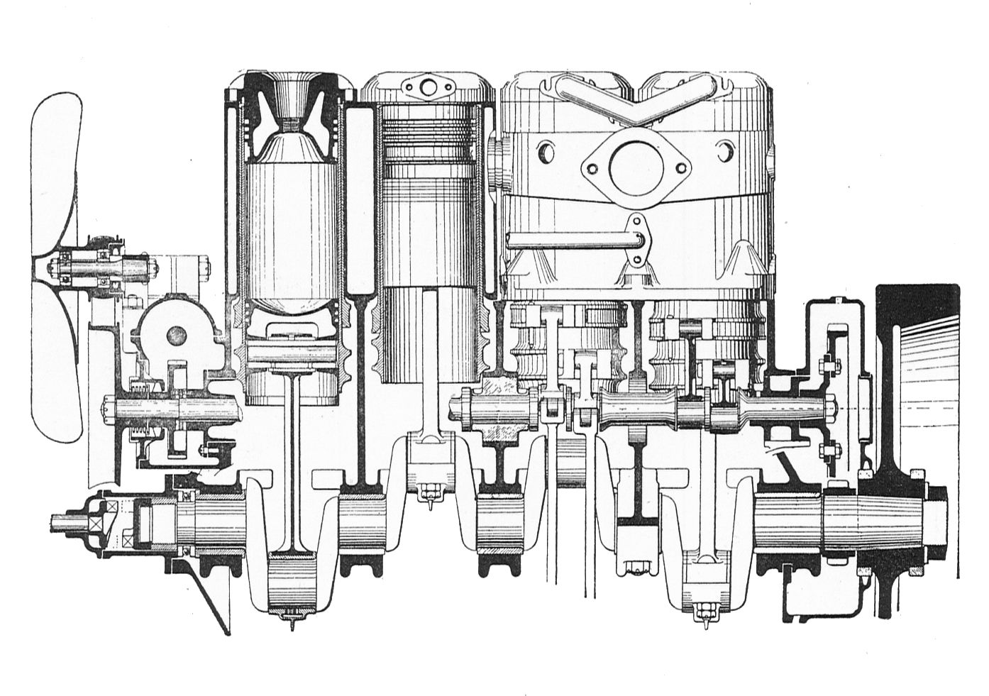 Fig. 103 Sectional side elevation of the Knight-Daimler engine The Knight-Daimler sleeve valve engine, using Knight's double sleeve valves.